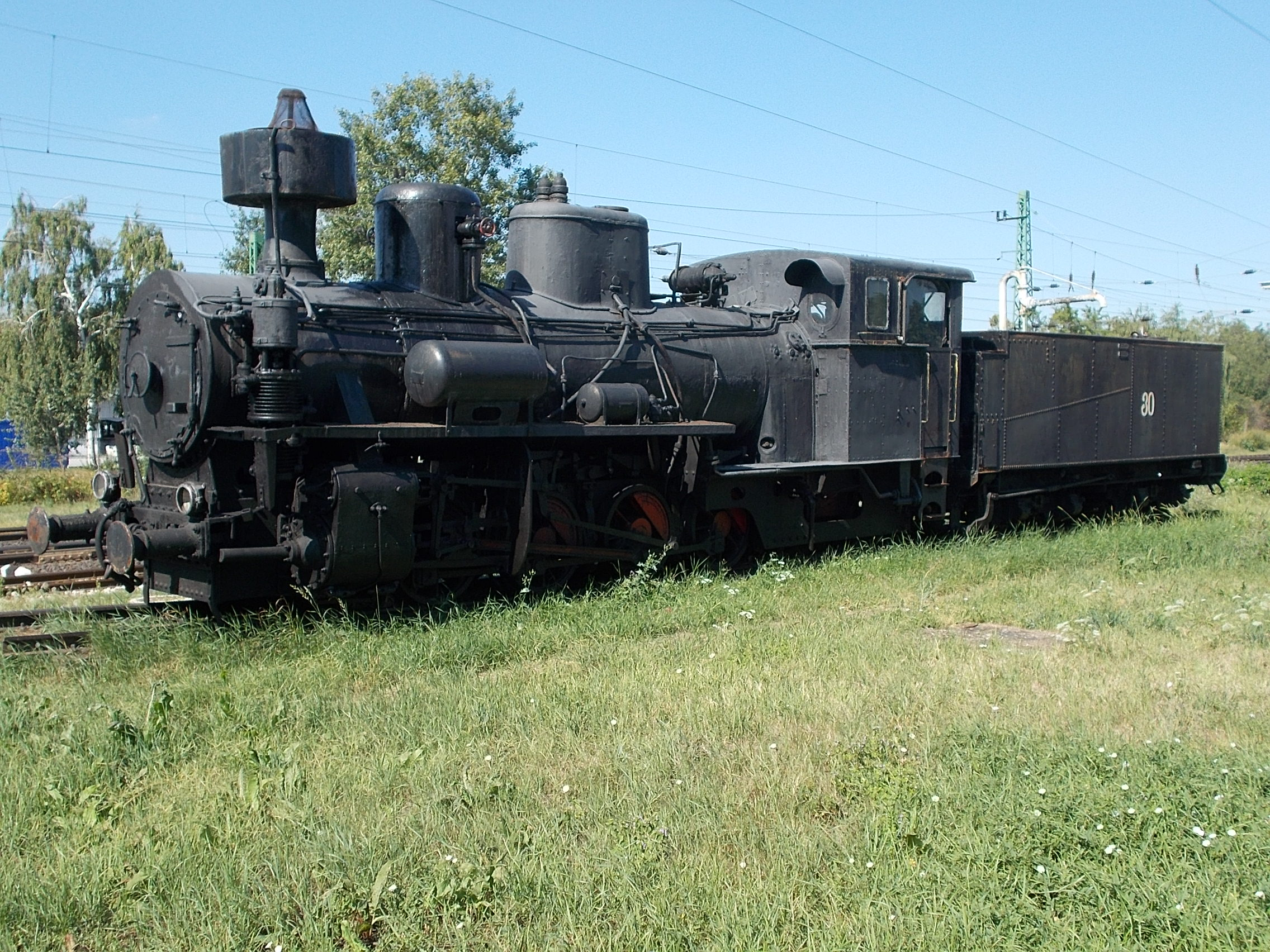 Mosonmagyaróvár railway station, steam locomotive number '30' on side displayed as a monument. - Moson neighborhood, Mosonmagyaróvár, Győr-Moson-Sopron County, Hungary. Metre gauge version of Yugoslavian class 83.